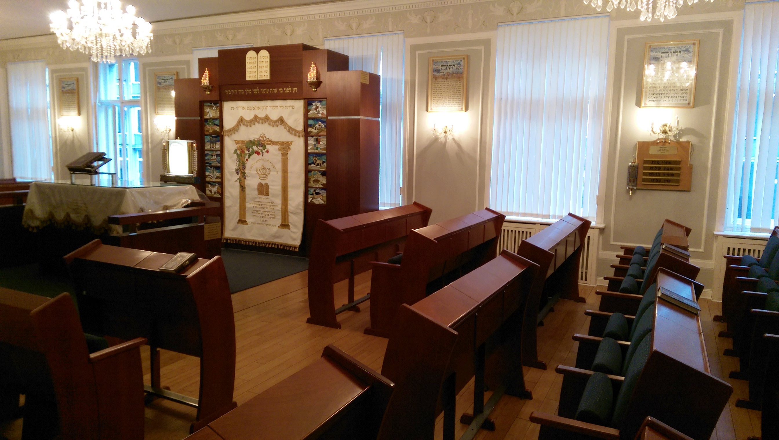 Inner view of the Tiferet Israel Sephardic Synagogue, in Berlin